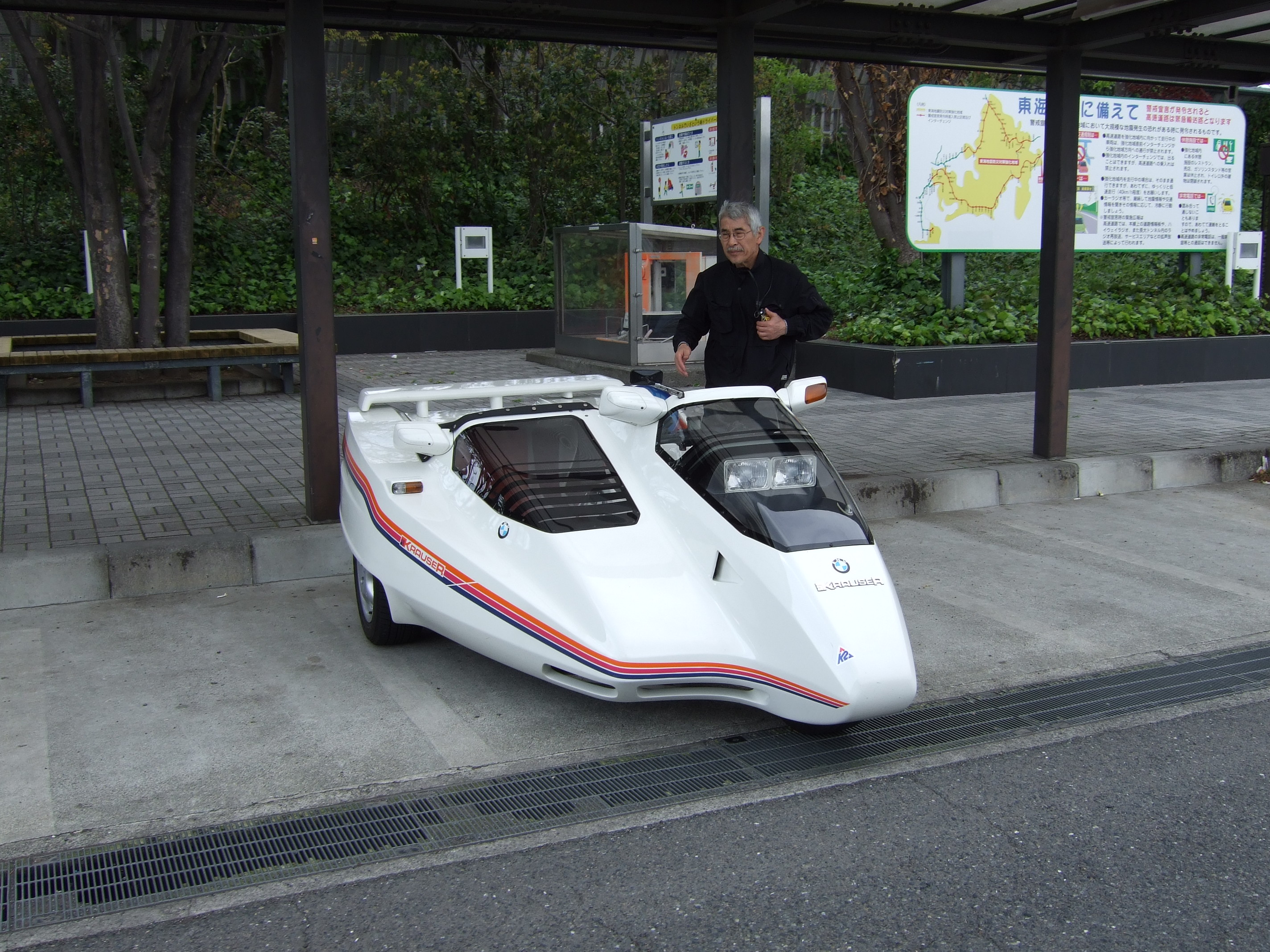 sweet motorcycle / spotted on the way home Krauser Domani